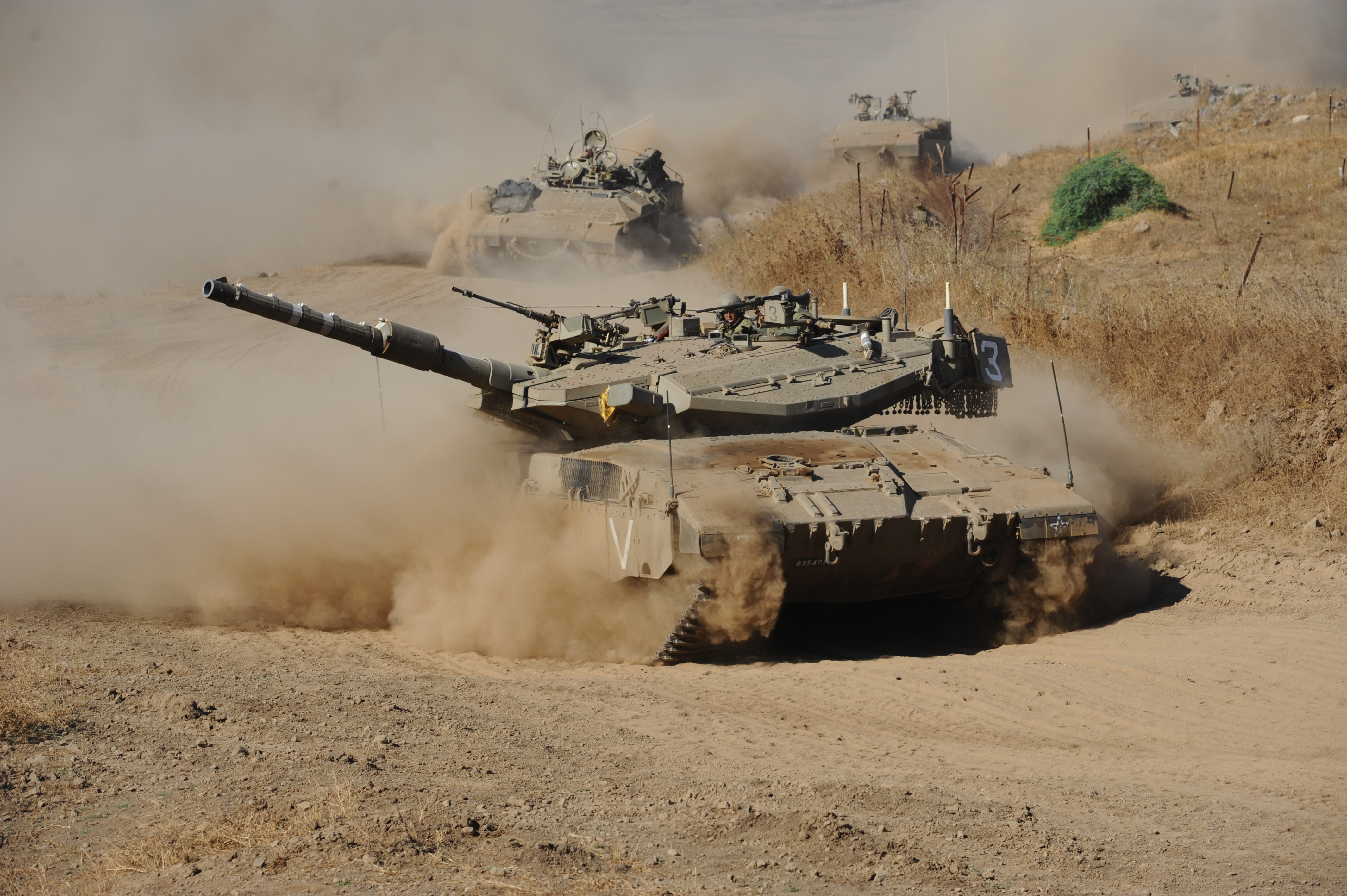 August 21, 2012 The 13th Battalion of the Golani Brigade during a drill held in the Golan Heights, northern Israel. The NAMER ("Tiger"), a new vehicle combining the artillery abilities of the Merkava tank and the APC's shielding capacities, was fully integrated in this drill for the first time, improving the battle tactics used by the IDF in the field. Photo by Cpl. Shay Wagner The Israel Defense Forces Facebook • blog • Twitter